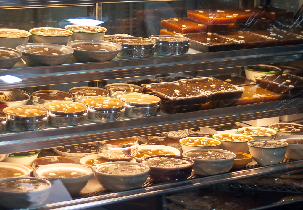 Qatari sweets for sale at a confectionery in Souq Waqif, Doha, Qatar.